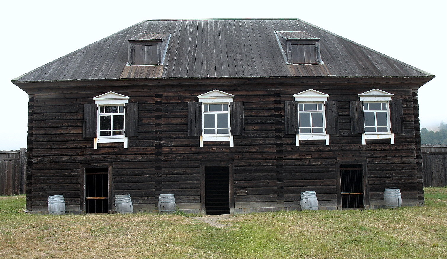 National Register of Historic Places listings in Sonoma County, California. Kuskov House, Fort Ross State Historical Monument, Sonoma County, California